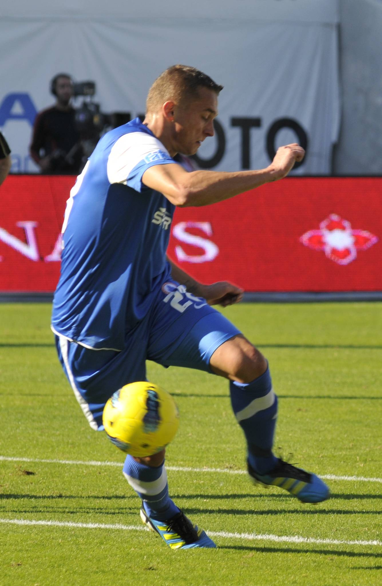 Antalyaspor - İBB